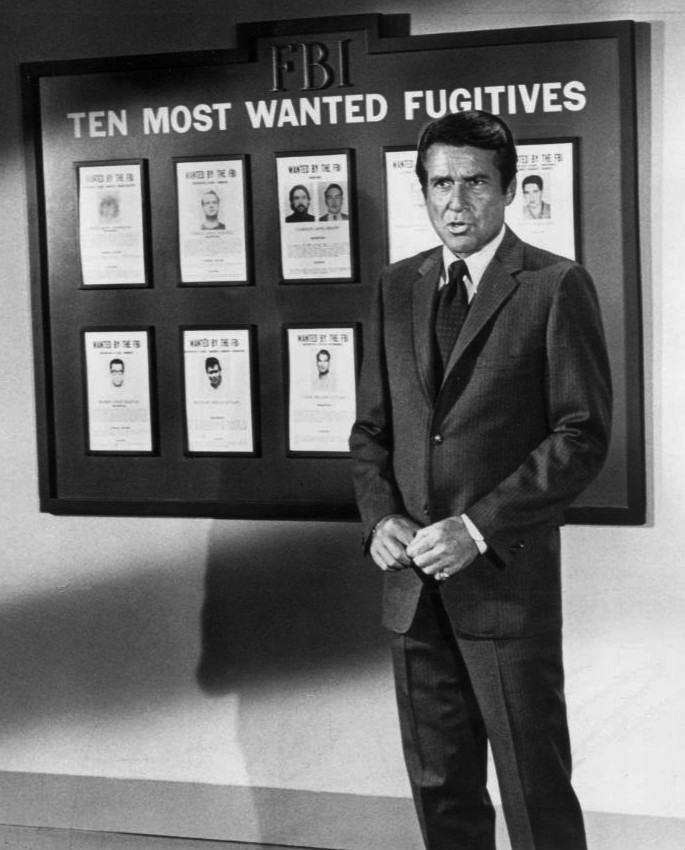 Photo of Efrem Zimbalist, Jr. during the "FBI Ten Most Wanted List" segment which was aired at the end of some episodes of the program. The segments featured information on those currently on the "most wanted" list.